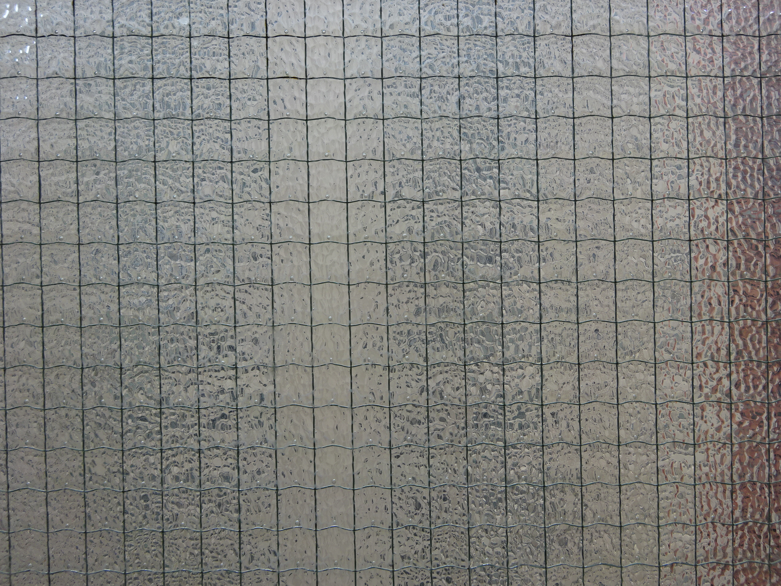 Two ChinaChem Exchange Square, No.338 King's Road, North Point, Hong Kong